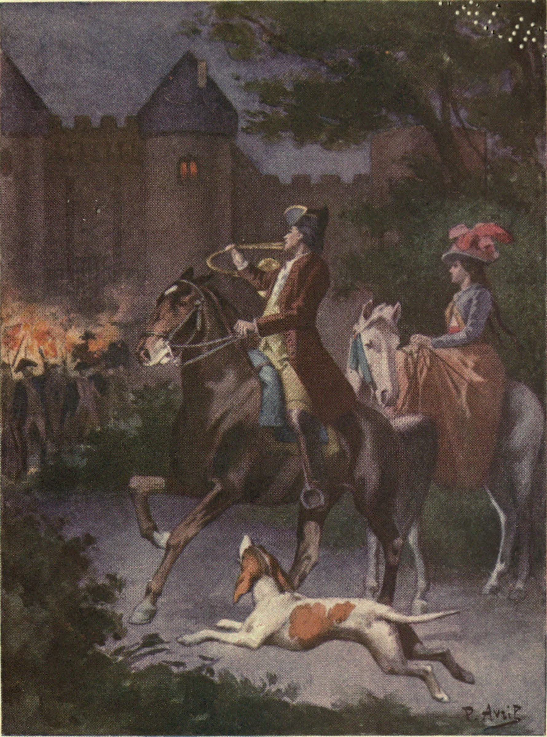 Coloured plate after watercolour painting by Eugéne Paul Avril (Édouard-Henri Avril), to face page 54 of the 1904 Wm. Heinemann edition of Mauprat